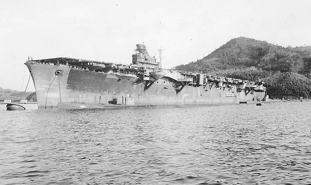 The Japanese aircraft carrier Junyō anchored at Sasebo, Japan, on 26 September 1945, with submarines tied up alongside.